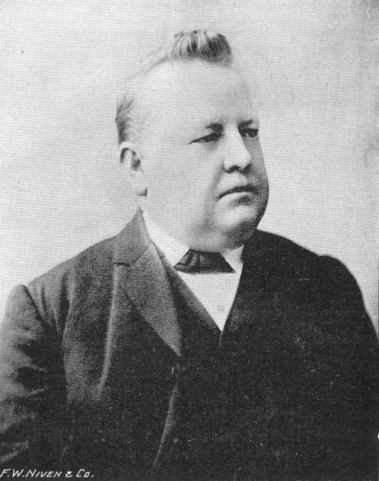 Scan from original